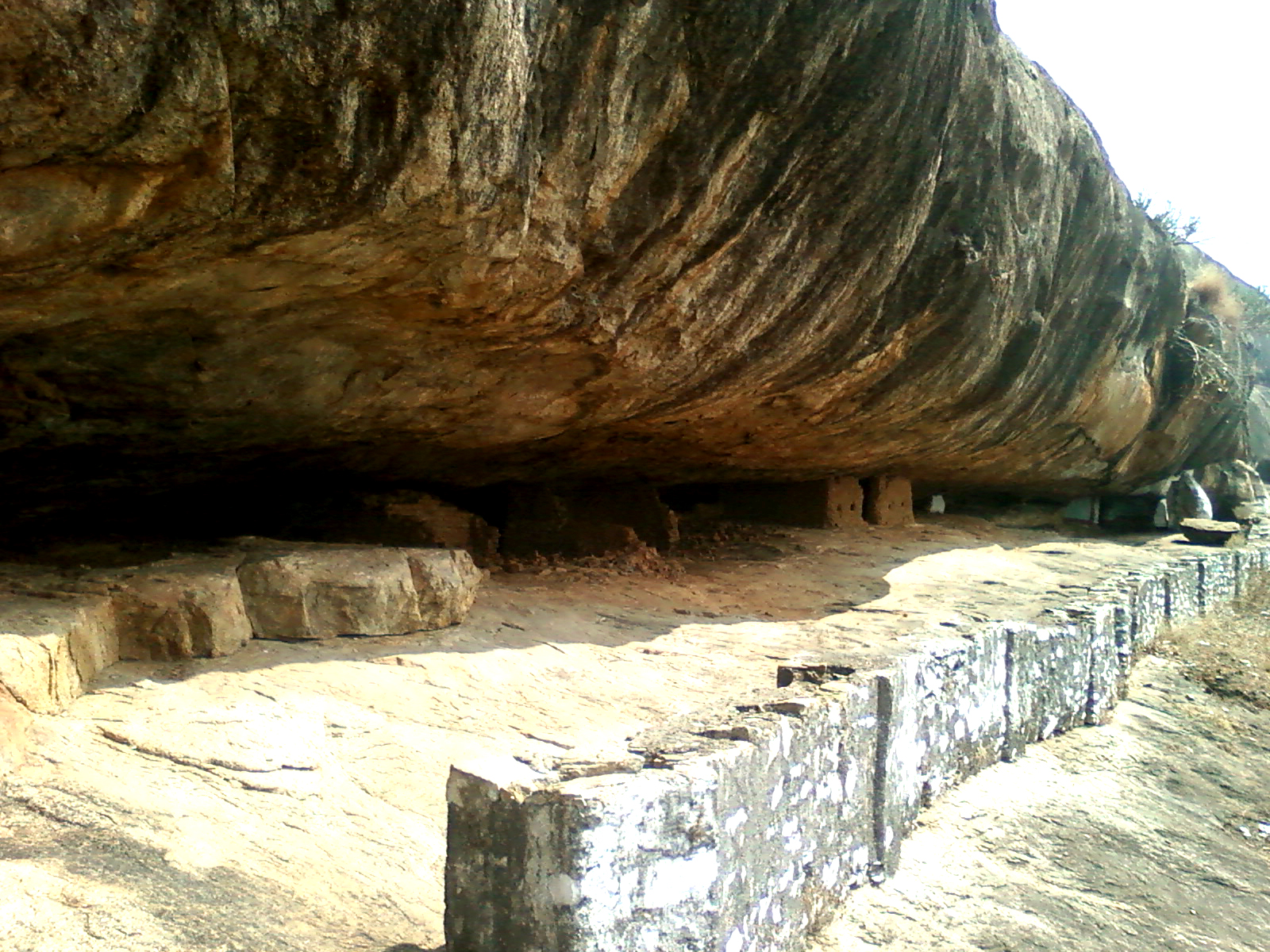 Jain and Buddhist Rockcut caves on Bodhikonda in Ramatheertham, Vizianagaram district